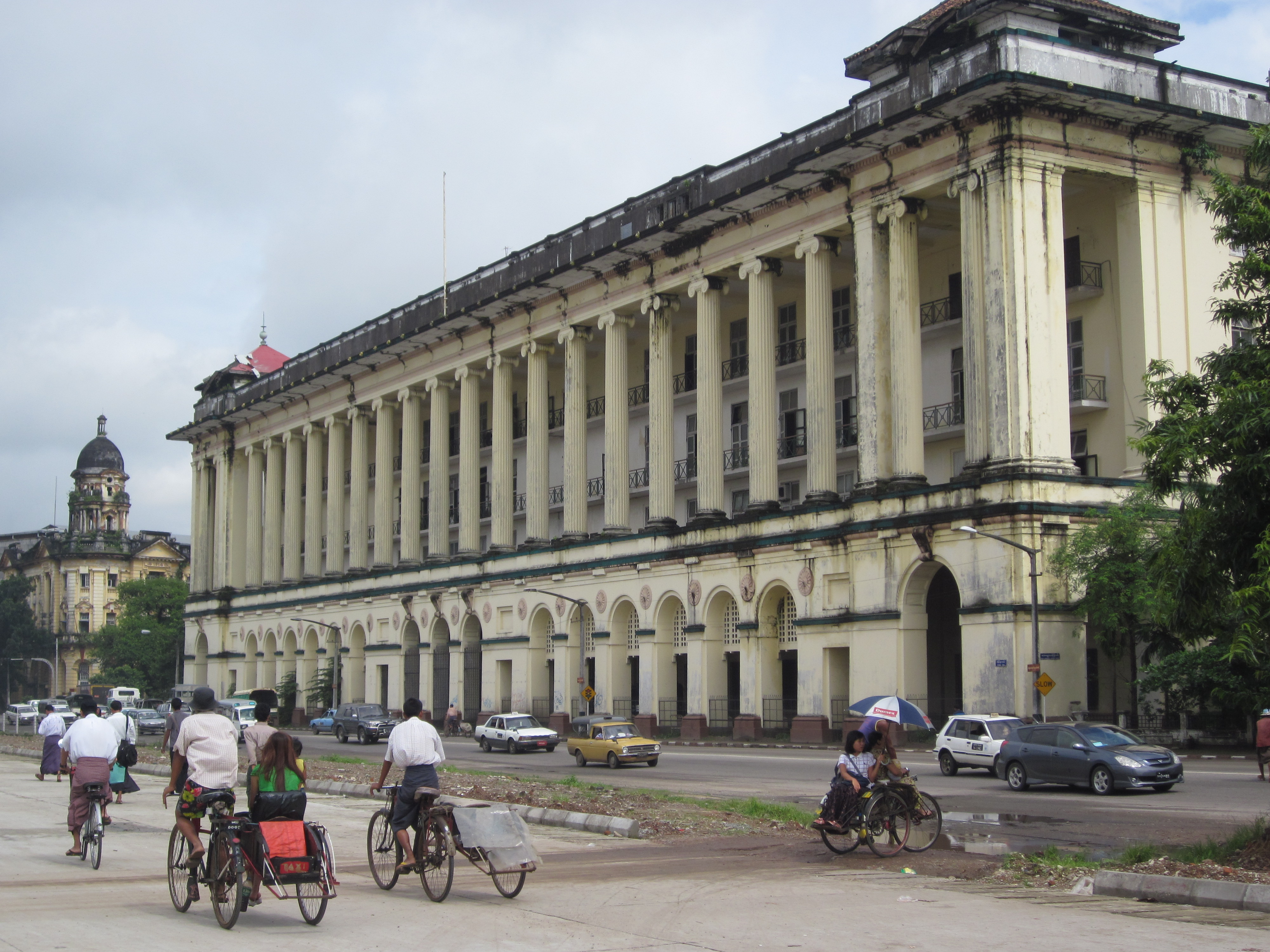 Yangon Region Court (formerly New Law Courts building)